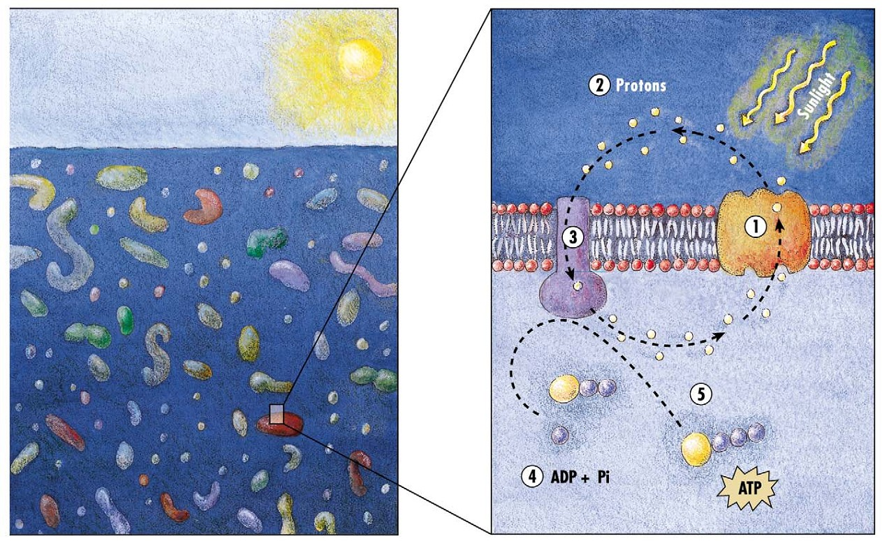 Model of the energy generating mechanism in marine bacteria. When sunlight strikes a rhodopsin molecule (1), it changes its configuration such that a proton is expelled from the cell (2). The chemical potential causes the proton to flow back into the cell (3), thus generating energy (4) in the form of adenosine triphosphate (5).